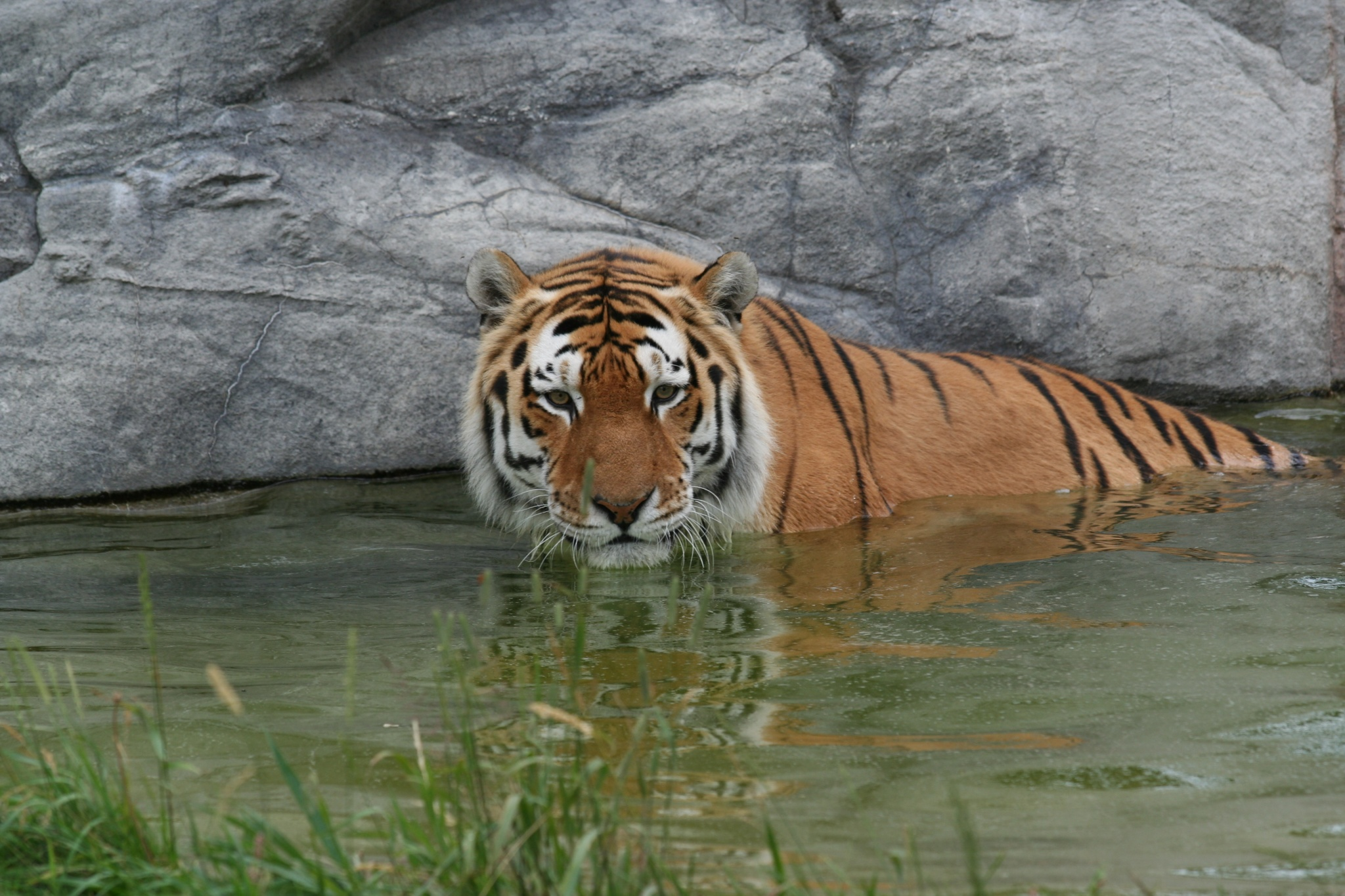 Siberian Tiger, taking a swim. Taken at the Toronto Zoo, with a Canon EOS 350D & 70-300mm f4-5.6 IS USM lens. – Ber'Zophus